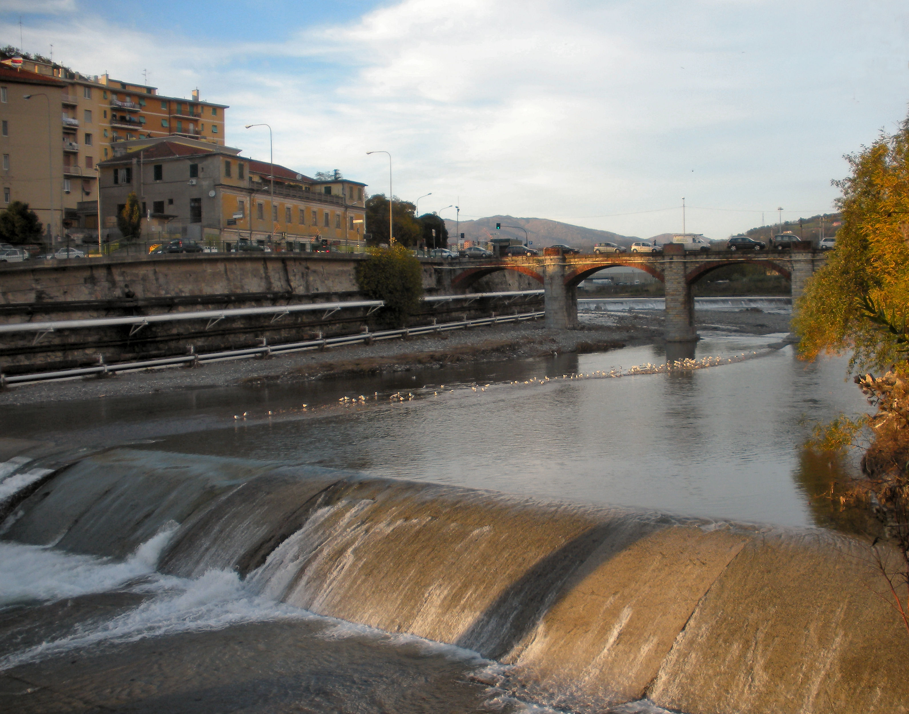 Genoa (Italy), quarter of Bolzaneto, river Polcevera and St. Francis bridge